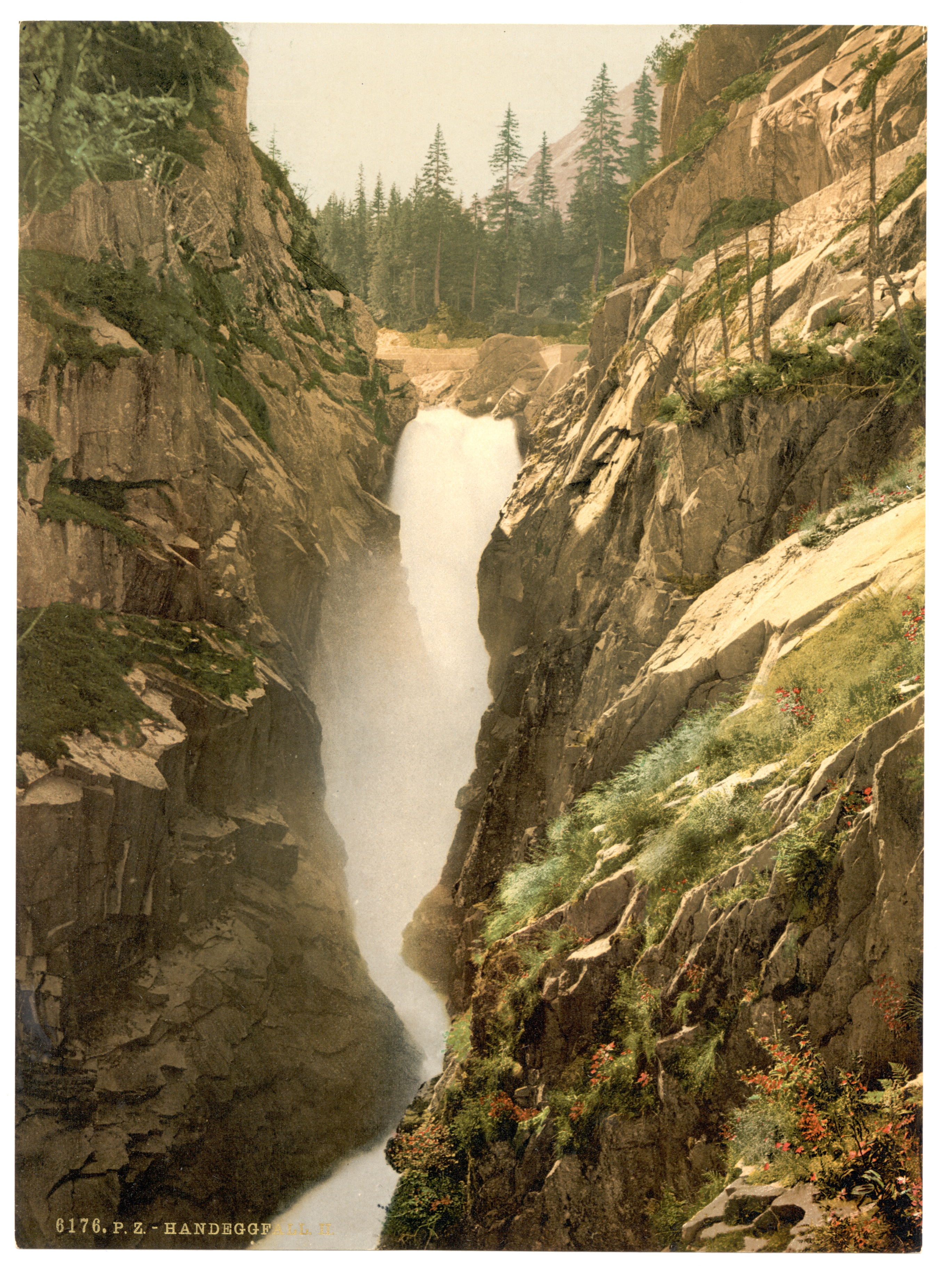 Forms part of: Views of Switzerland in the Photochrom print collection.; Title from the Detroit Publishing Co., Catalogue J-foreign section, Detroit, Mich. : Detroit Publishing Company, 1905.; Print no. "6176".